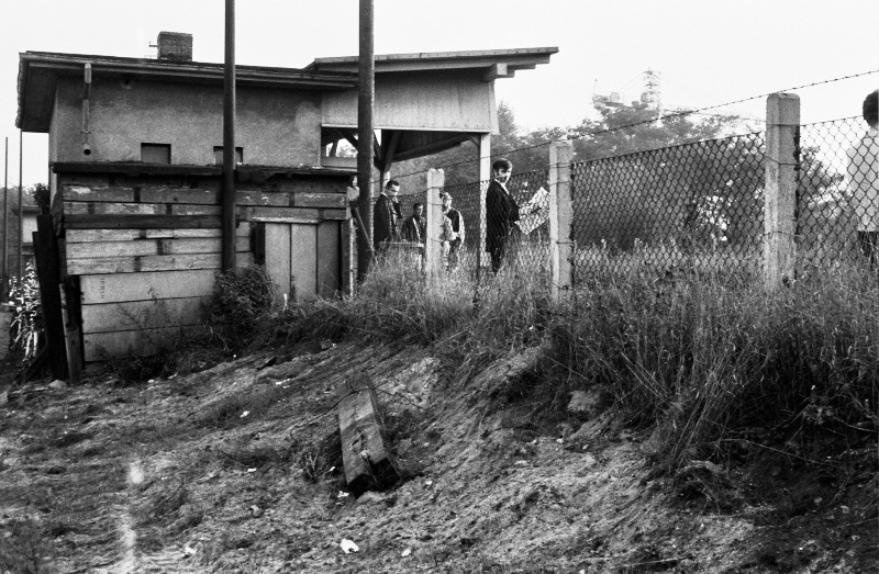 Photo by R. W. Rynerson. Station on the Lichterfelde-Sud line of the Berlin S-Bahn in 1969 was not up to usual German standards.